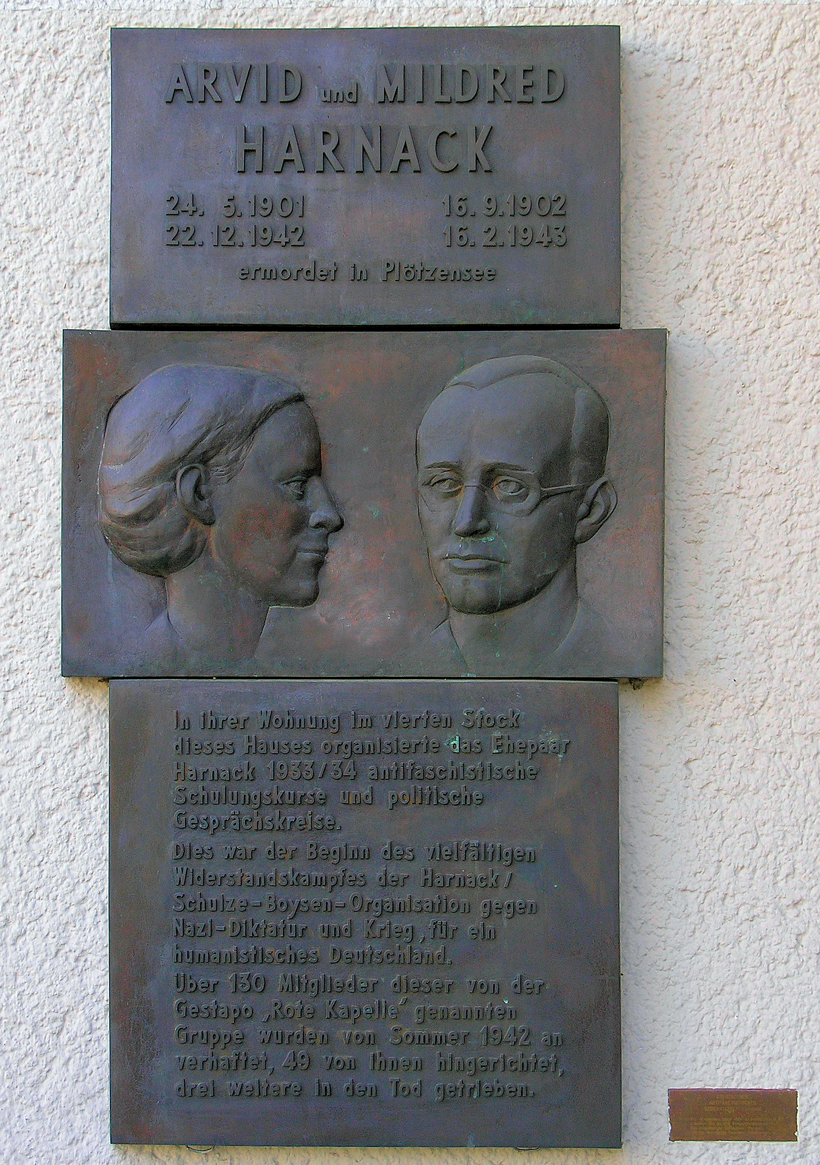 Memorial plaque, Arvid Harnack and Mildred Harnack, Hasenheide 61, Berlin-Kreuzberg, Germany